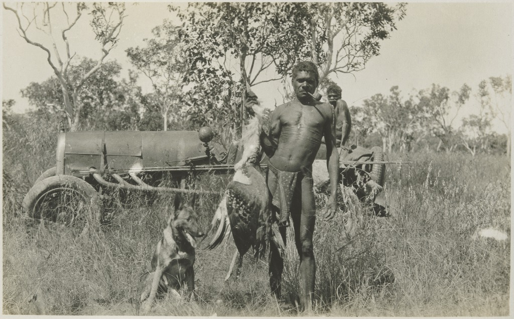 Title devised by cataloguer.; Part of the collection: Francis Birtles motor car tour collection, ca. 1899-1928; Inscriptions: "Printed by Harringtons"--Stamped on verso.; Condition: Yellowing, silvering.; Also available in electronic version via the Internet at: .au/nla.pic-vn5465242. Persistent URL .au/nla.pic-vn5465242